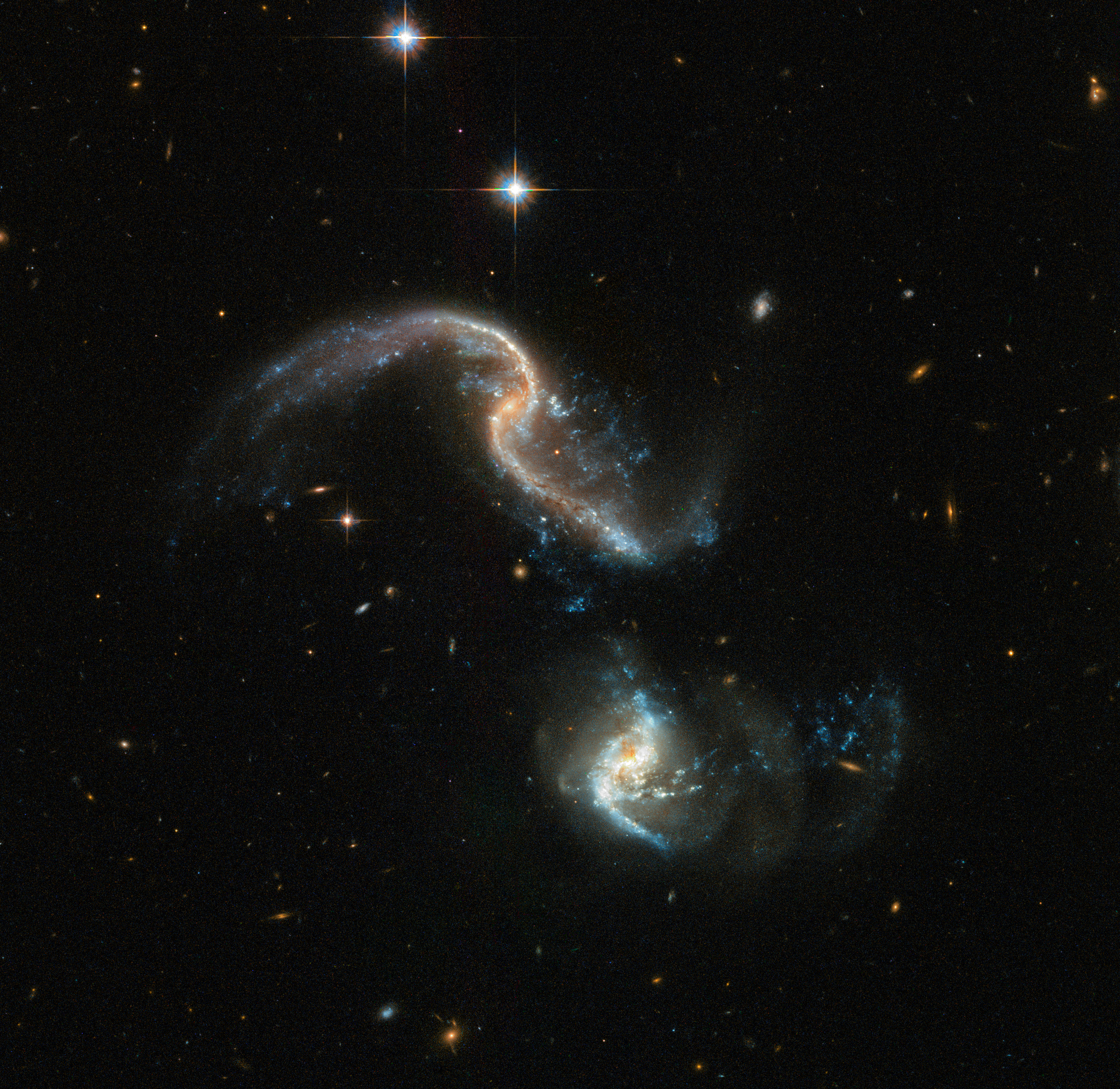 Arp 256 is a stunning system of two spiral galaxies, about 350 million light-years away, in an early stage of merging. The image, taken with the NASA/ESA Hubble Space Telescope, displays two galaxies with strongly distorted shapes and an astonishing number of blue knots of star formation that look like exploding fireworks. The star formation was triggered by the close interaction between the two galaxies. This image was taken by Hubble’s Advanced Camera for Surveys (ACS) and the Wide Field Camera 3 (WFC3). It is a new version of an image already released in 2008 that was part a large collection of 59 images of merging galaxies taken for Hubble’s 18th anniversary.